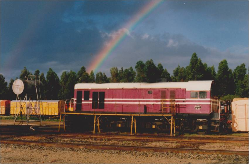 Ex-Midland Railway of Western Australia locomotive G50 at Pinjarra Corporal29 (talk) 07:25, 3 September 2011 (UTC) category: locomotives